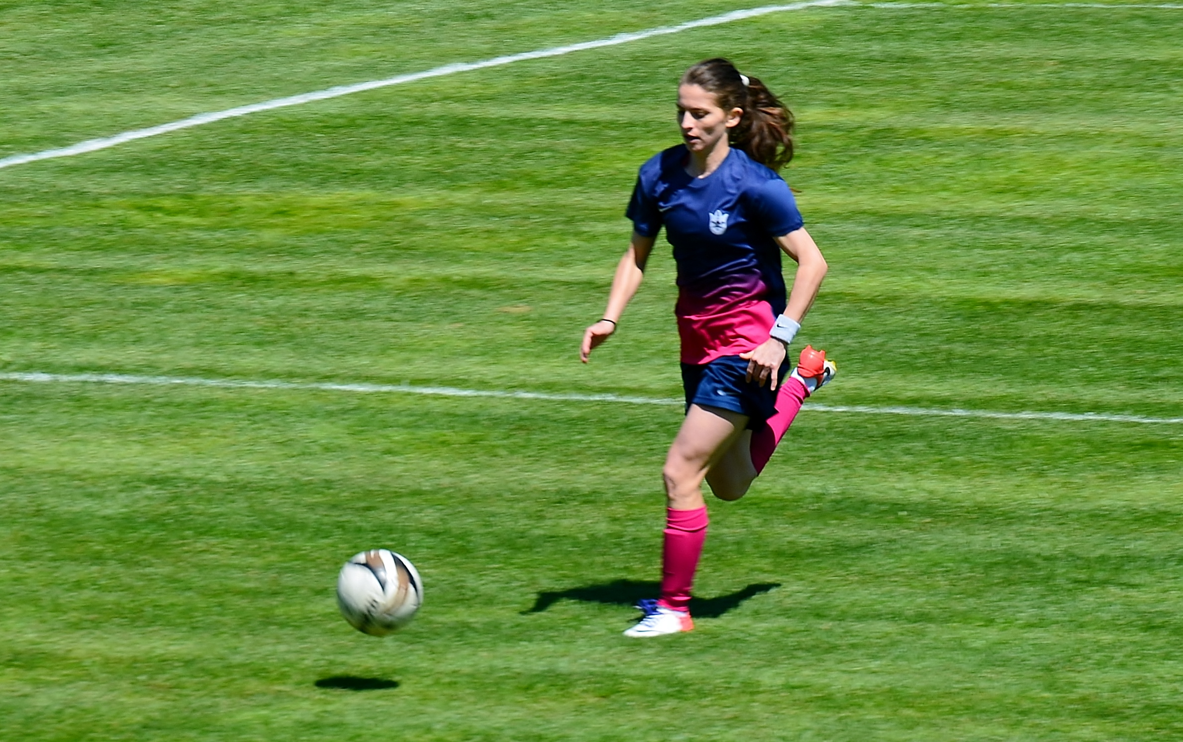 Monica Raluca Sârghe playing for Konak Belediyespor in the 2014-15 season